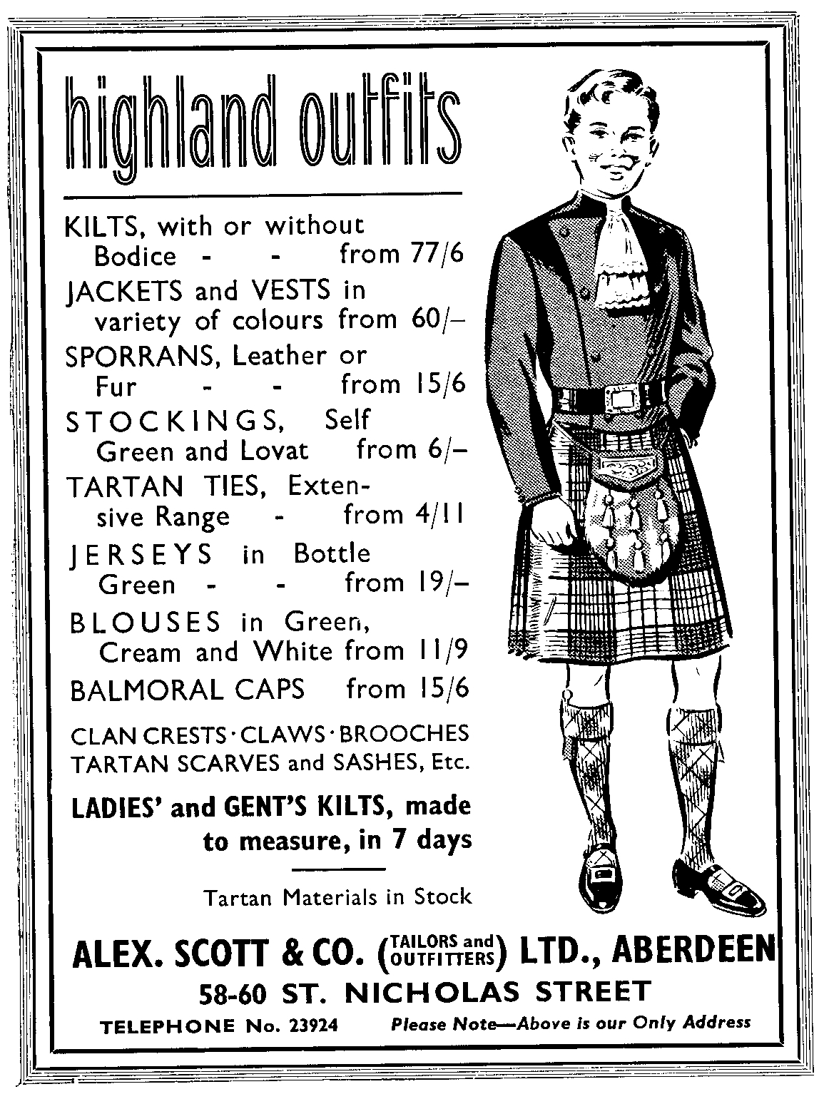 Highland outfits advertisement (1957)